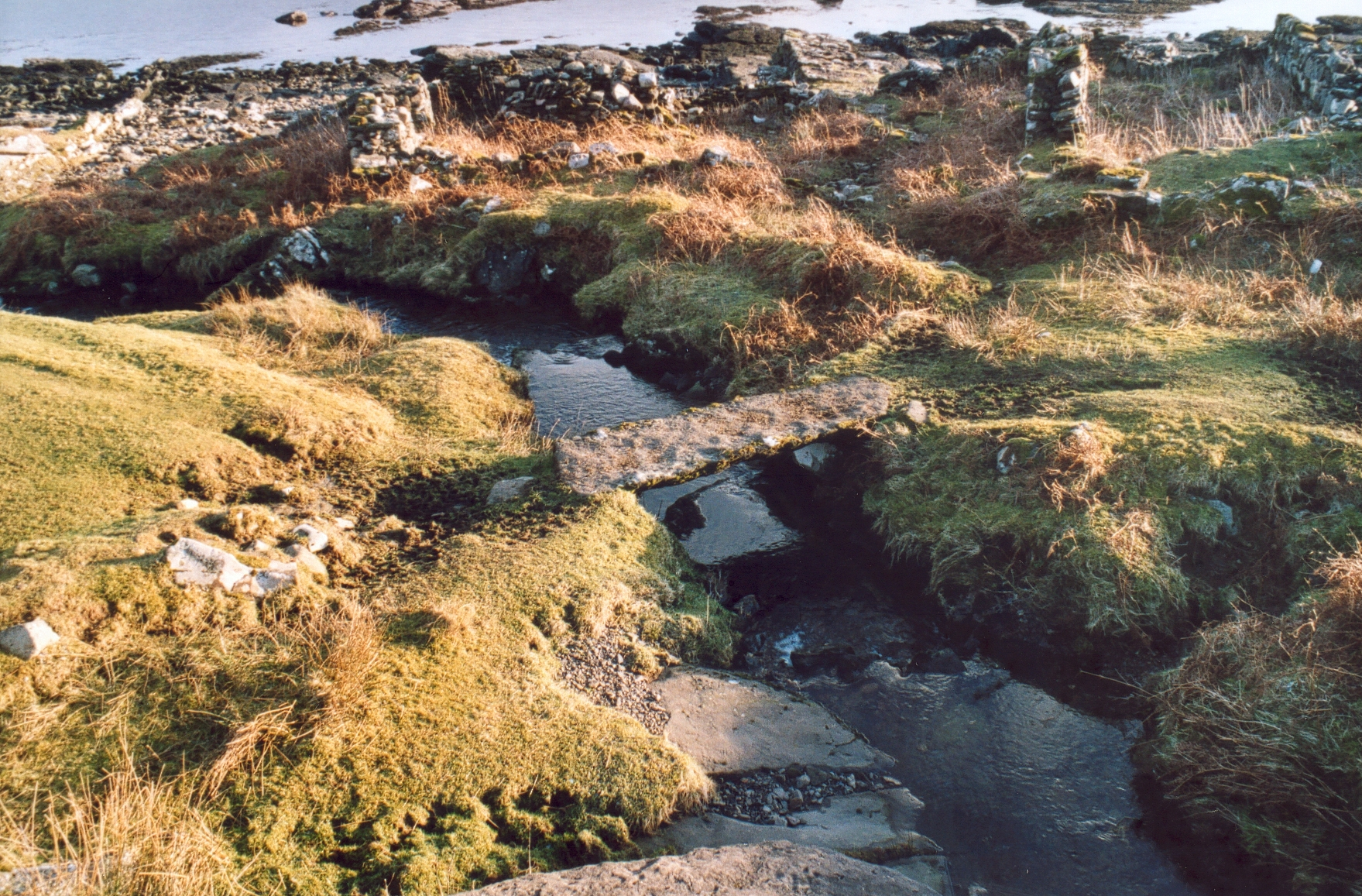 Footbridge over the Boreraig Burn, made by "Glagan-glùine"